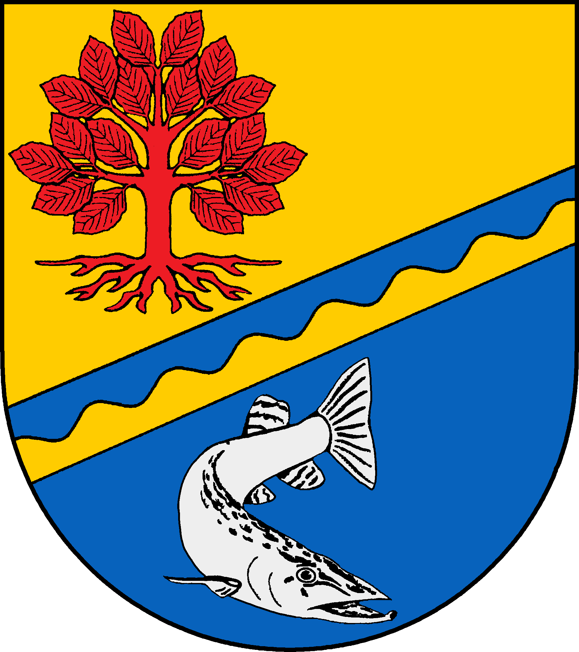 Coat of arms of the municipality Kükels in Schleswig-Holstein, Germany.